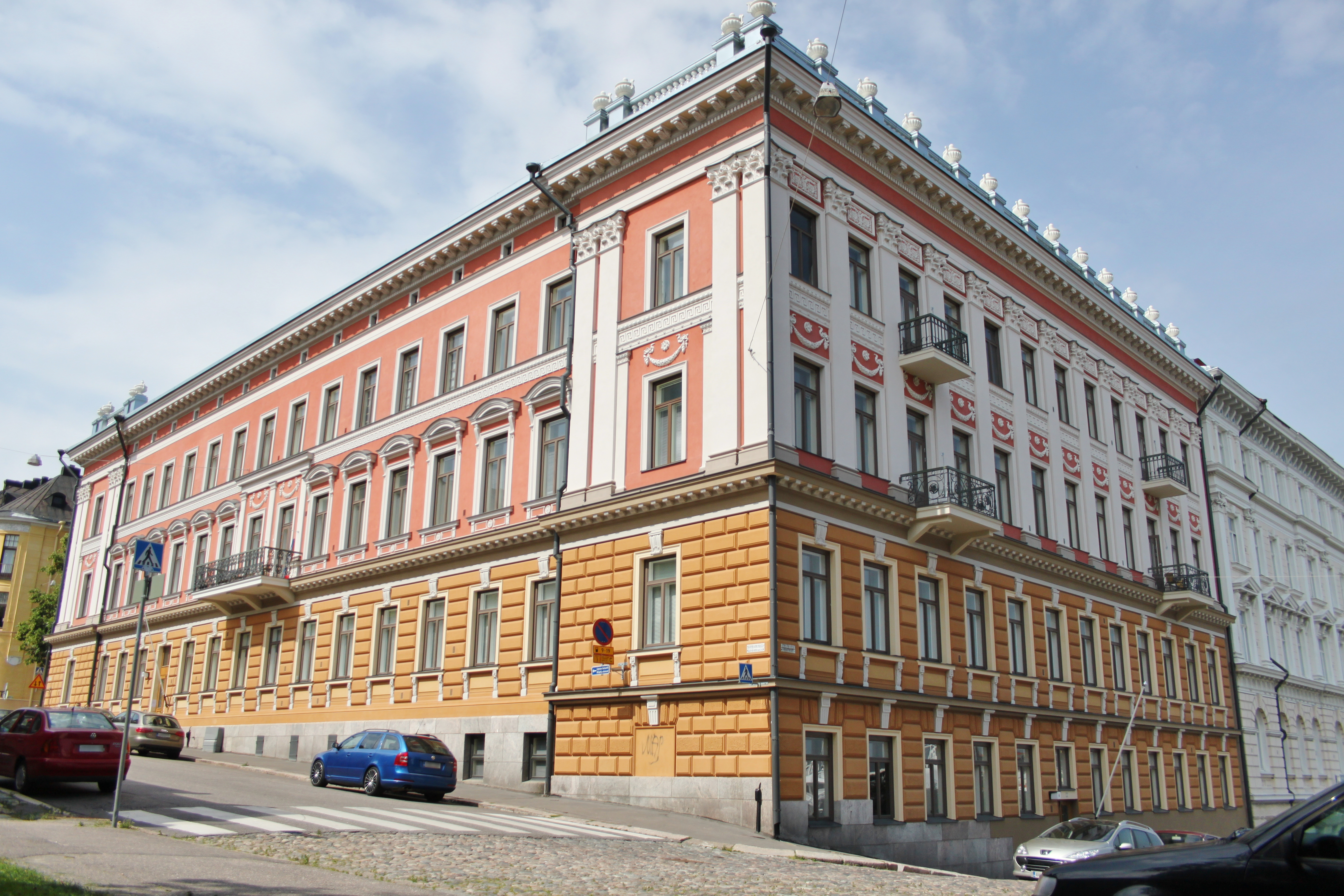 Bernhardinkatu 1 / Eteläranta 2, Helsinki. Architecht: Sebastian Gripenberg. Built 1887